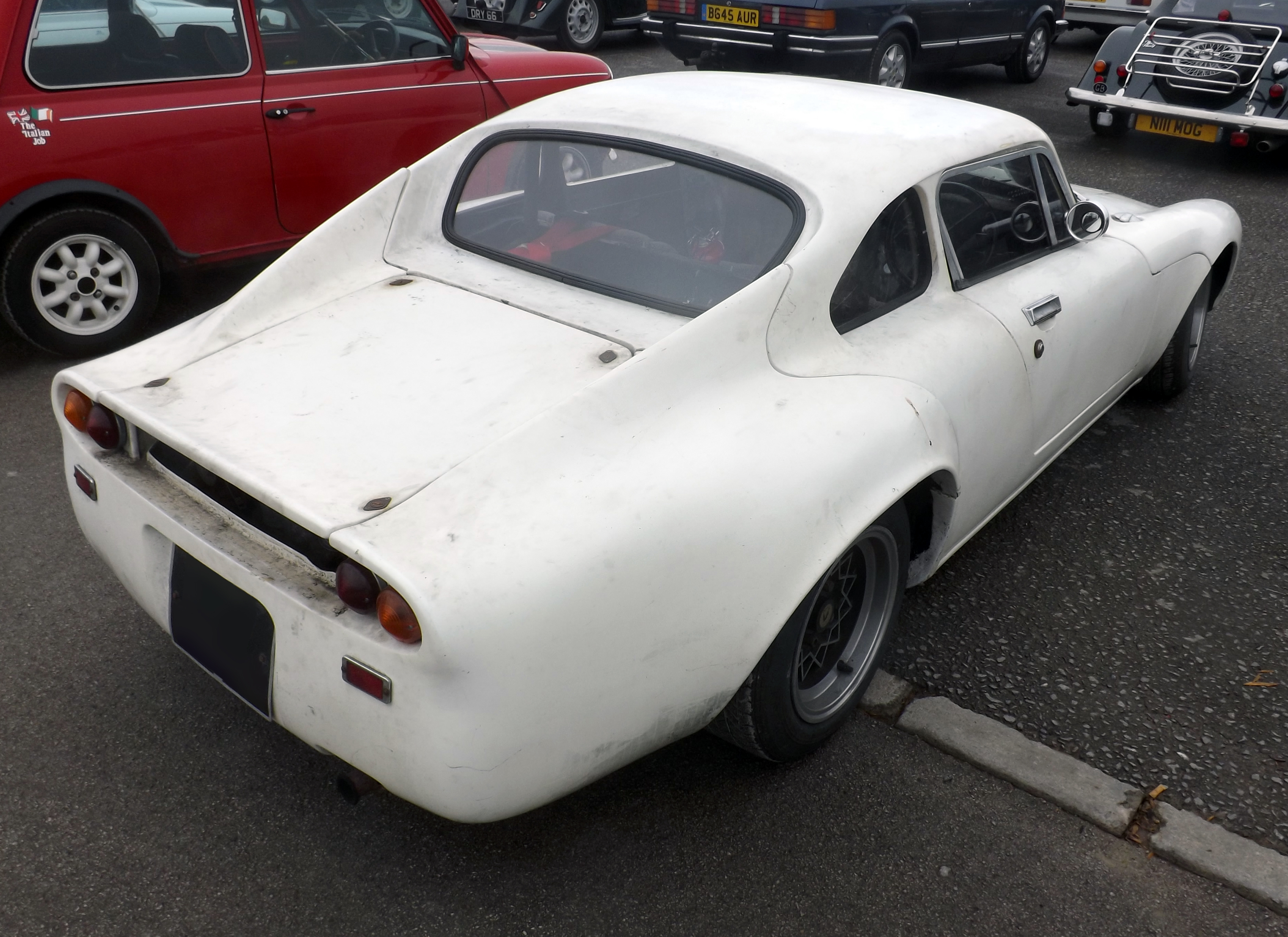 A 1970 Davrian Mk. V at the Bristol Classic Car Show, Royal Bath & West Showground, 13th June 2015. 875cc, first registered December 1970.